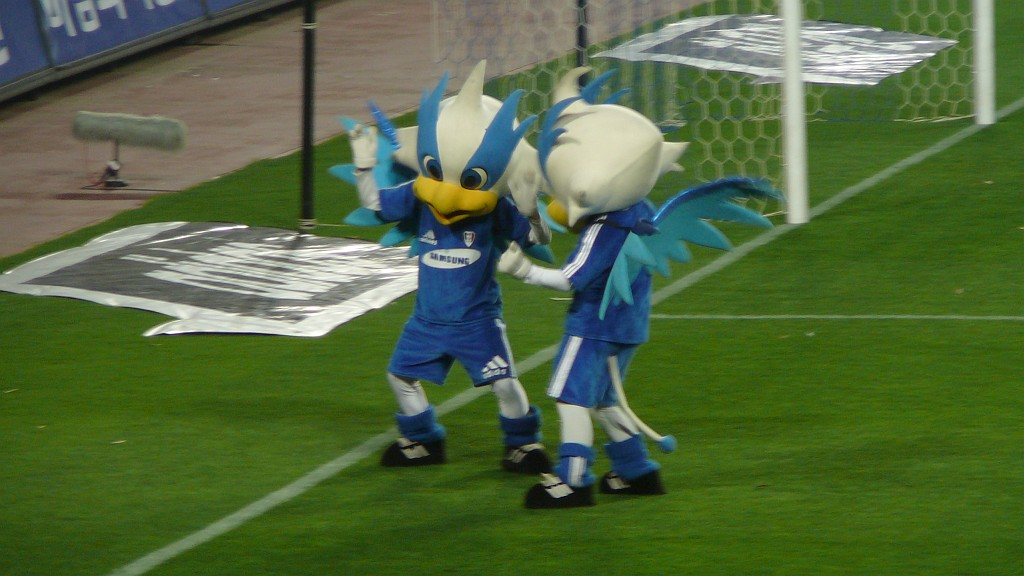 Aguileon, the mascot of Suwon Samsung Bluewings F.C.